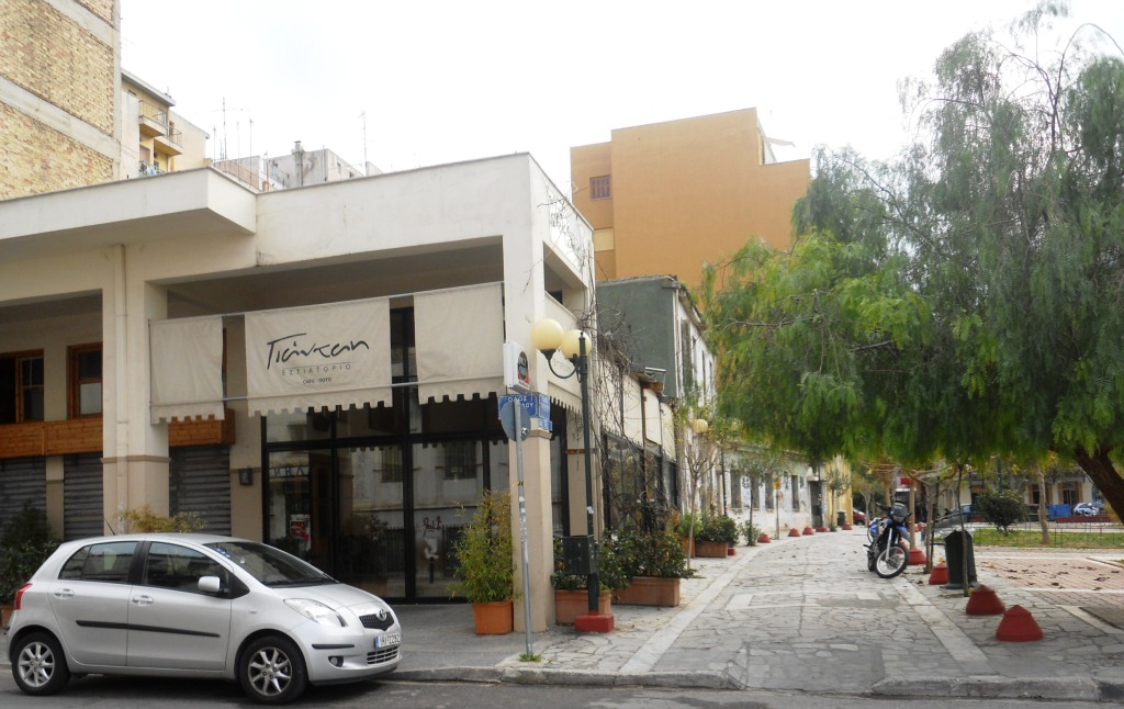 Giantai on Avdi Square in Metaxourgeio.